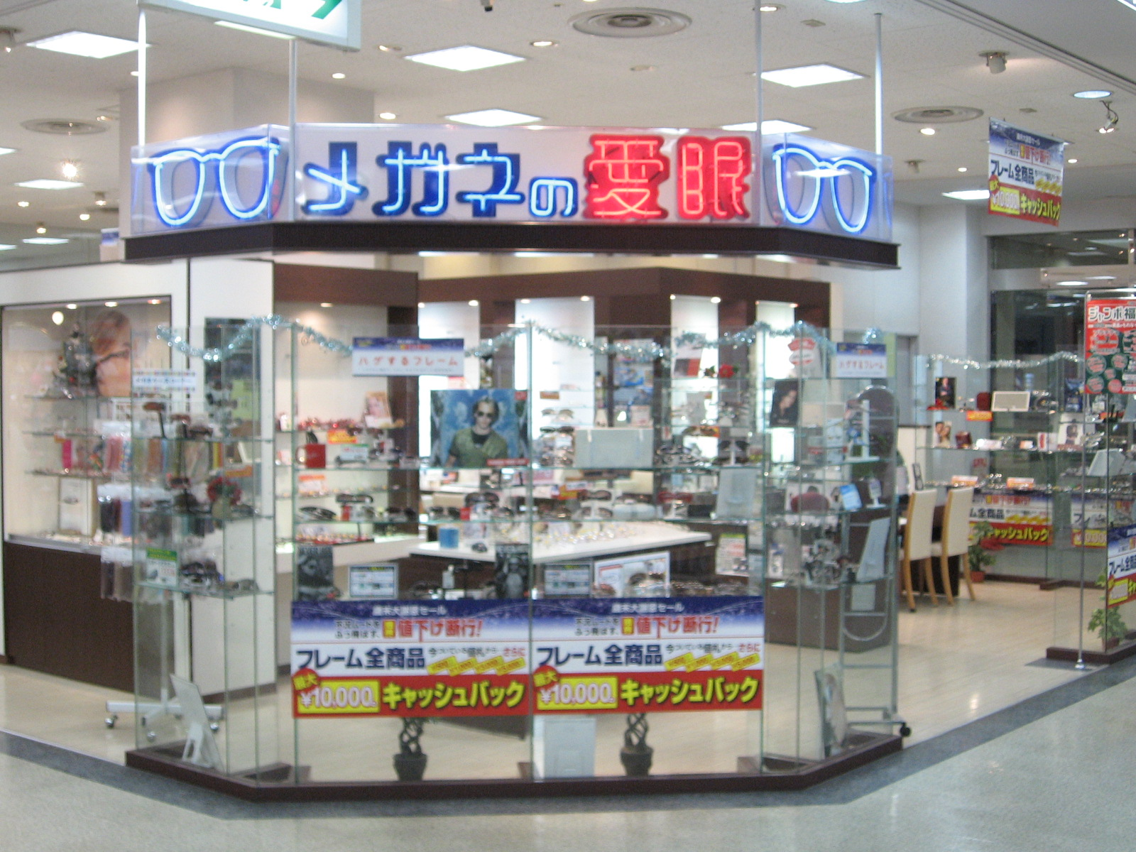 Megane shop "Aigan" in Asta Tanashi station square.